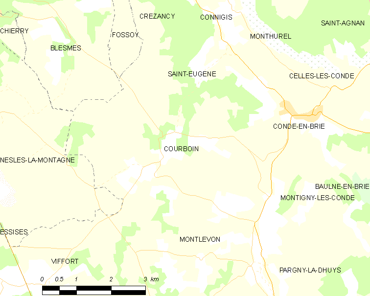 Map of French commune: Courboin Map commune FR insee code 02223.png